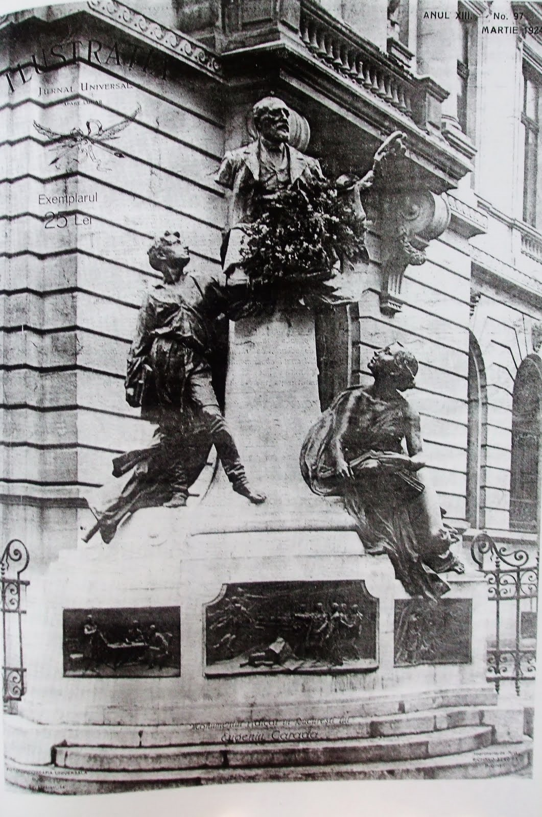 Original monument to Eugene Carada unveiled in 1924 near National Bank in Bucharest, sculptor Ernest Henri Dubois, removed under later regime. Front page illustration Journal Universal, Year XIII, No. 97, March 1924.